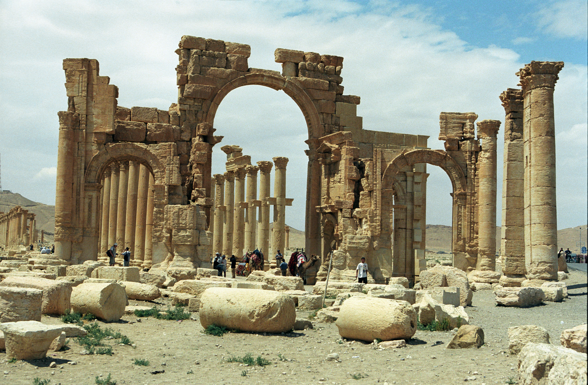 Palmyra, the Grande Colonnade Street